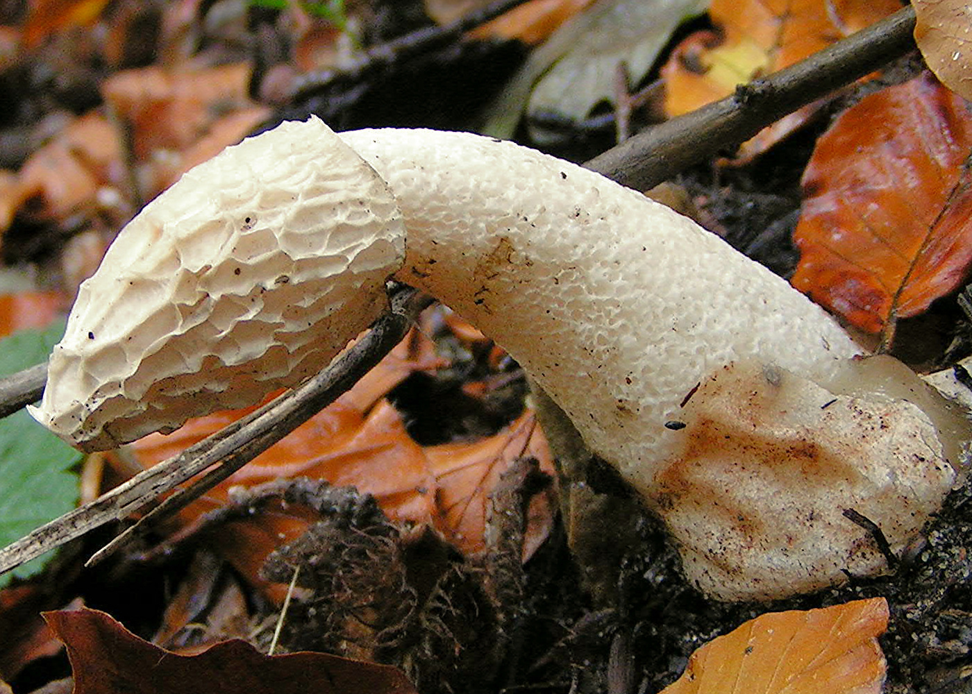 Phallus impudicus by Pethan